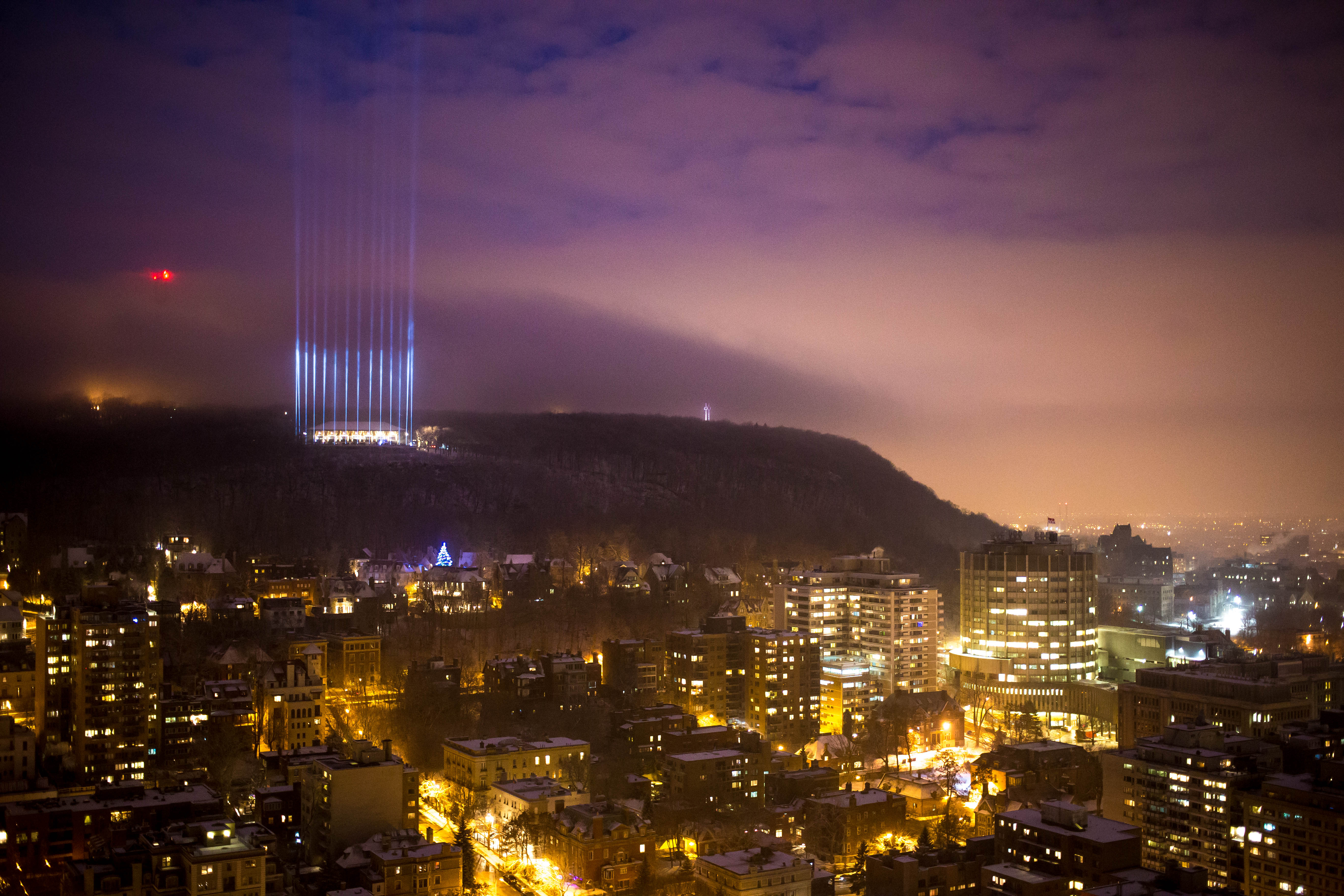 Commemorating the 25th anniversary of École Polytechnique massacre in Montreal. The 14 beams of light on Mount Royal represents 14 victims. .